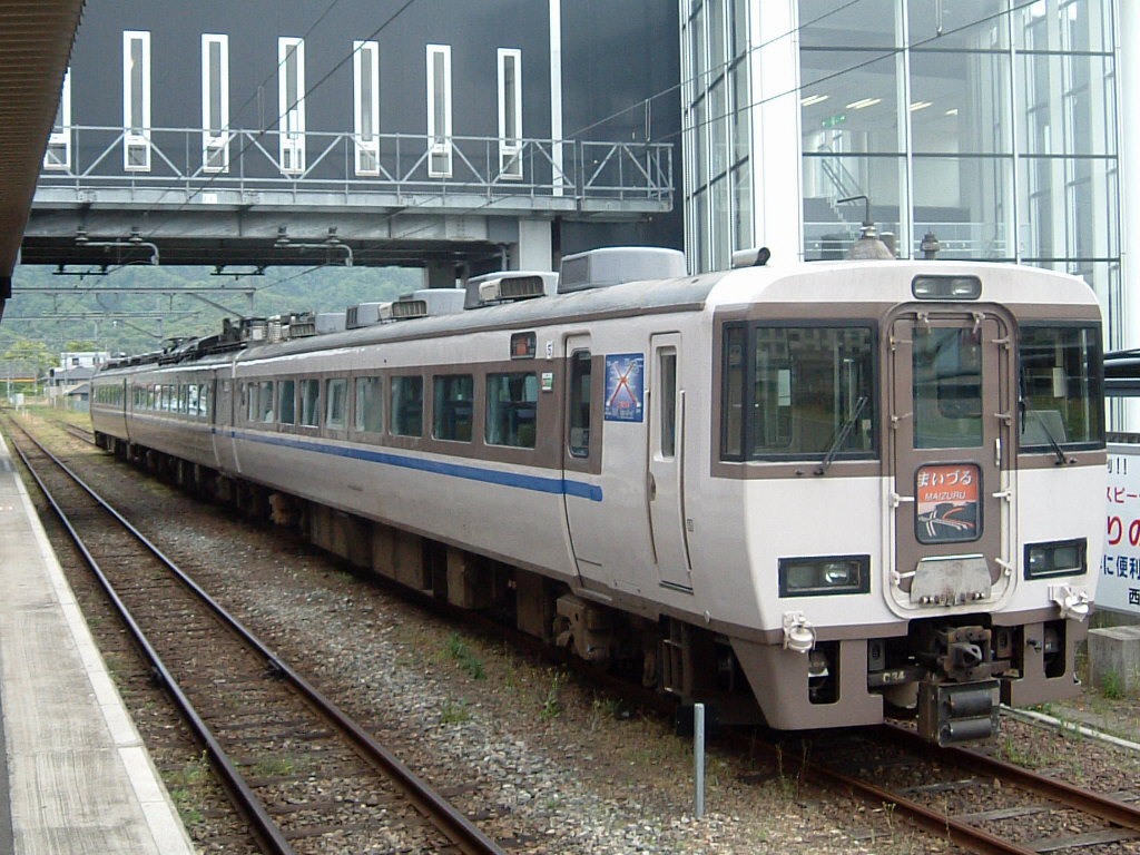 JR West 183 series 3-car EMU on a "Maizuru" limited express service at Nishi-Maizuru Station